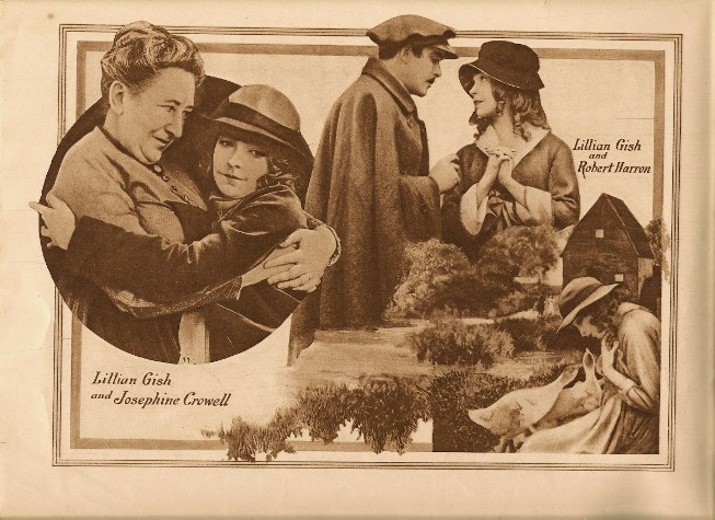 Lobby card for Hearts of the World